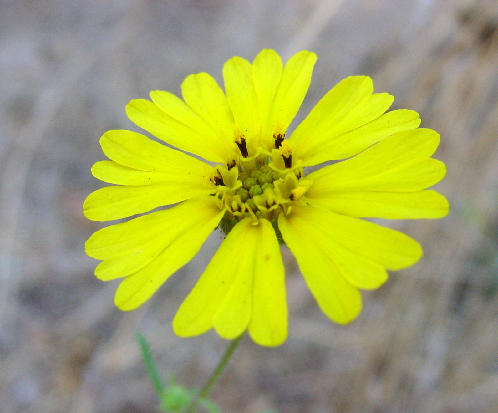 The flower of Madia elegans growing in the Santa Monica Mountains at the Paramount Ranch Park. Santa Monica Mountains National Recreation Area, Ventura County, Southern California.